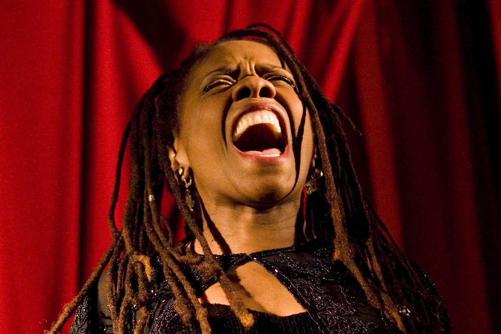 Soul singer Catherine Russell in a 2009 performance